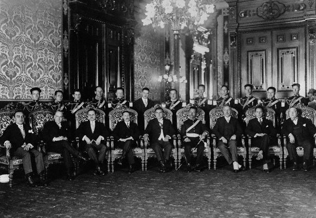 Cabinet of Emilio Portes Gil, President of Mexico